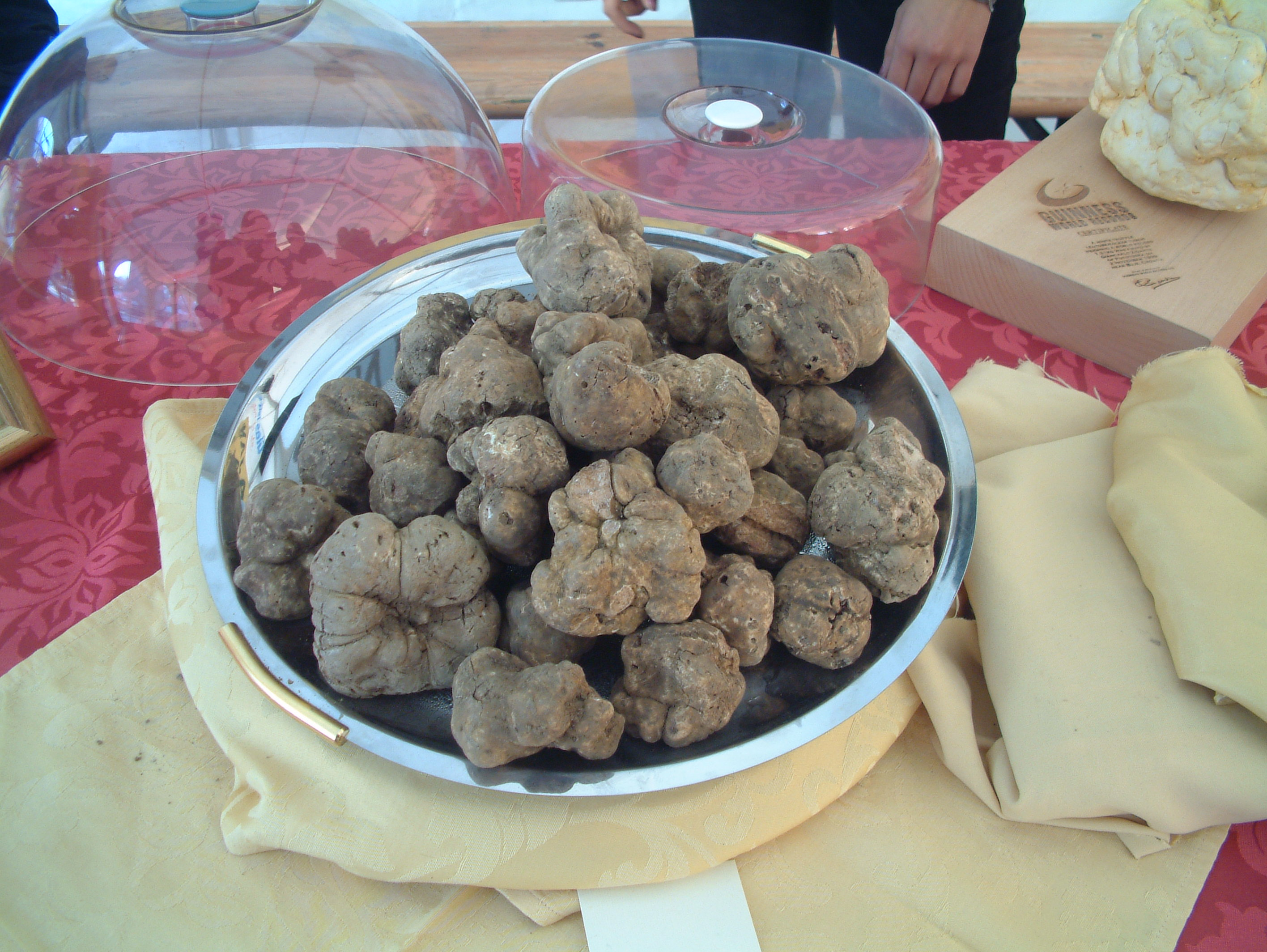 White truffles, mushrooms, Mirna river valley, Croatia. K. Korlević